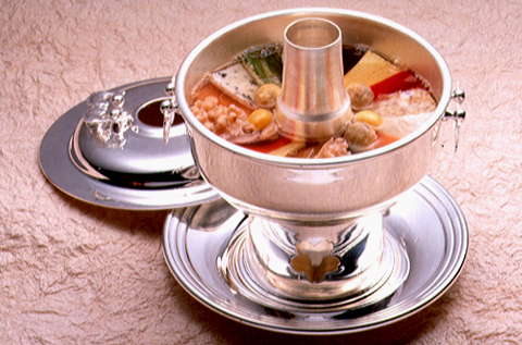 A colorful assortment of pan-fried delicacies, in a clear stock. Historically, this meal was reserved for royalty.